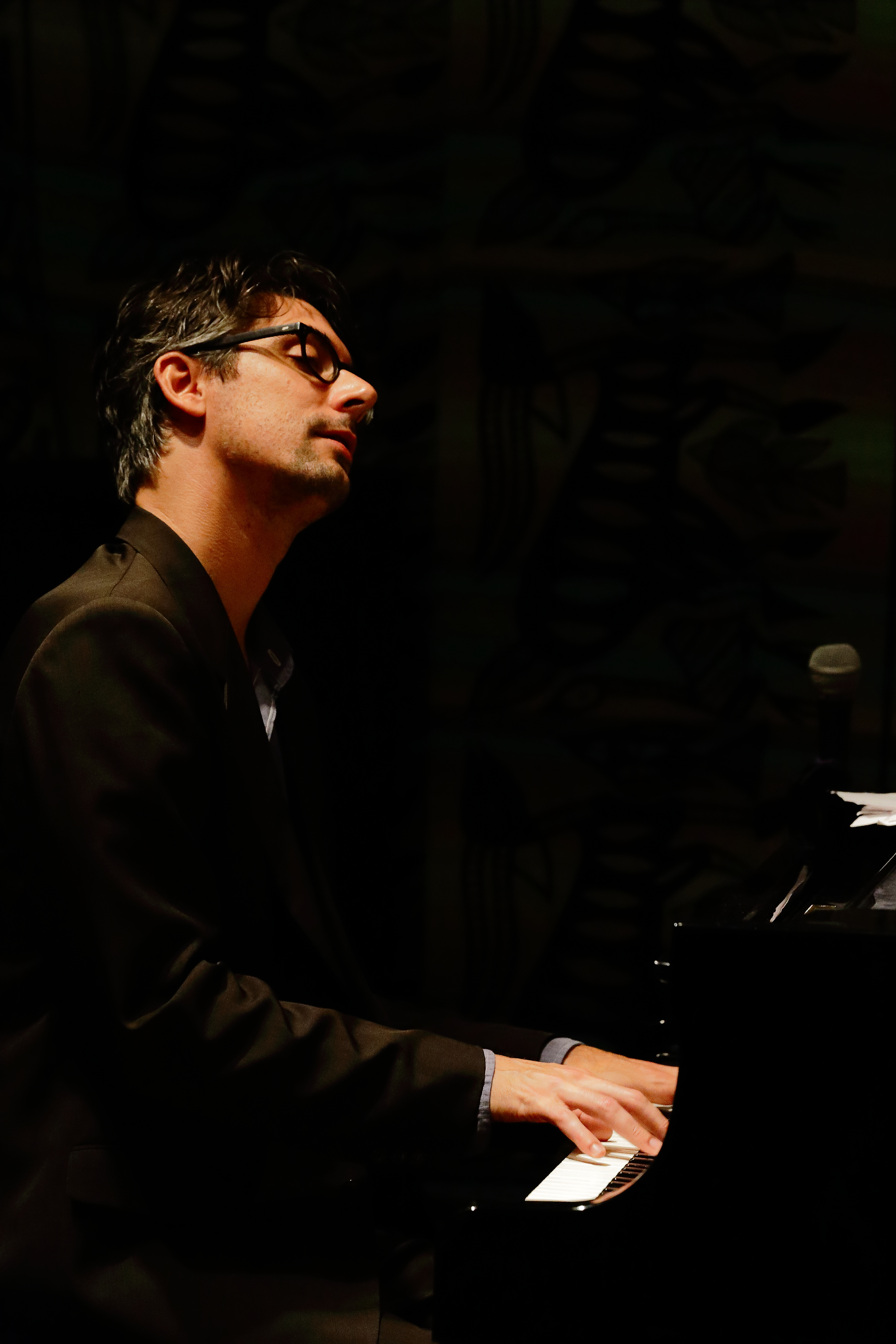 Pianist Josh Nelson at Half Moon Hall in Tokyo Japan, September 2013. Photo by Dai Murata